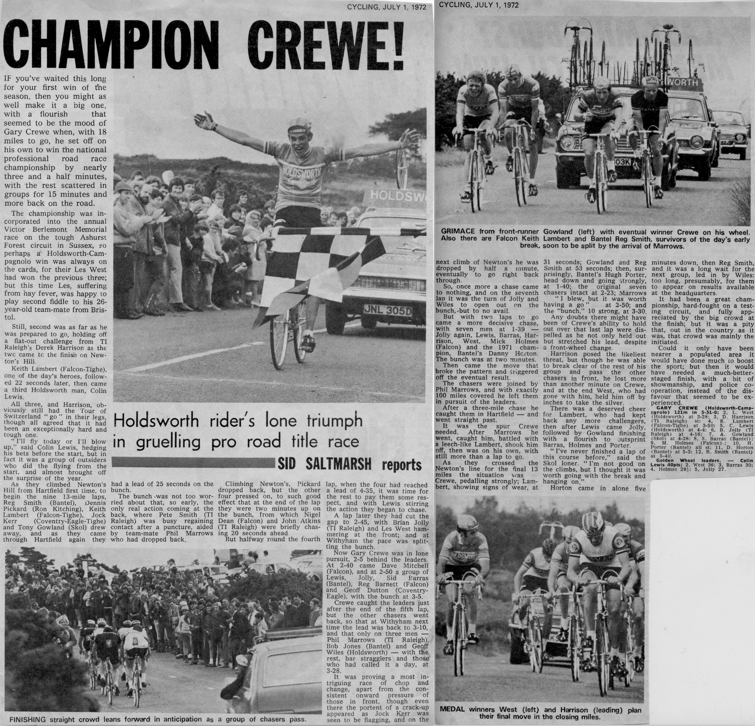 Cycling news report of Gary Crewe wining the British National Professional Road Race in 1972